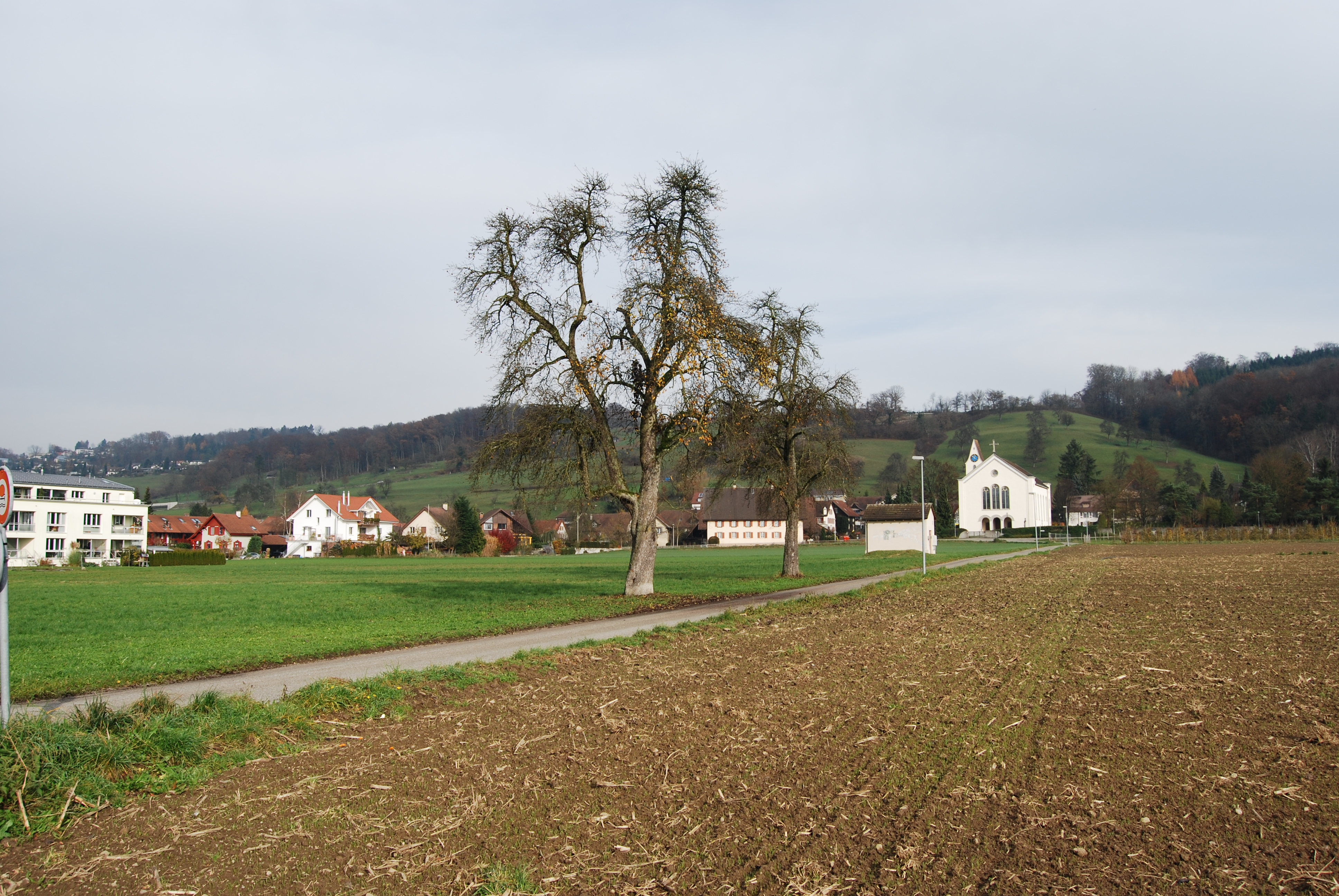 Zufikon, village and Church, canton of Aargau, SwitzerlandEsperanto: Zufikon, vilaĝo kaj preĝejo, Kantono Argovio, Svislando